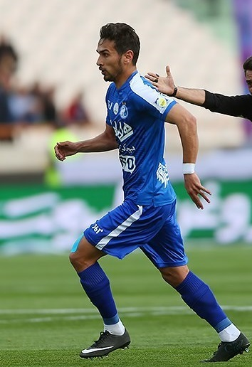 Sajjad Shahbazzadeh, player of Esteghlal during match against Rah Ahan